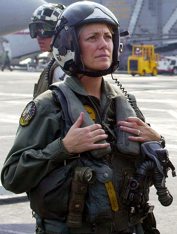 At sea aboard USS Abraham Lincoln (CVN 72) Oct. 31, 2002 -- CNN reporter Kyra Phillips prepares to board an F-14D “Tomcat” assigned to the “Tomcatters” of Fighter Squadron Thirty One (VF-31). Lincoln and Carrier Air Wing Fourteen (CVW-14) are on a regularly scheduled six-month deployment conducting combat missions in support of Operation Enduring Freedom and Southern Watch. U.S. Navy photo by Ensign Charles M. Abell. (RELEASED).